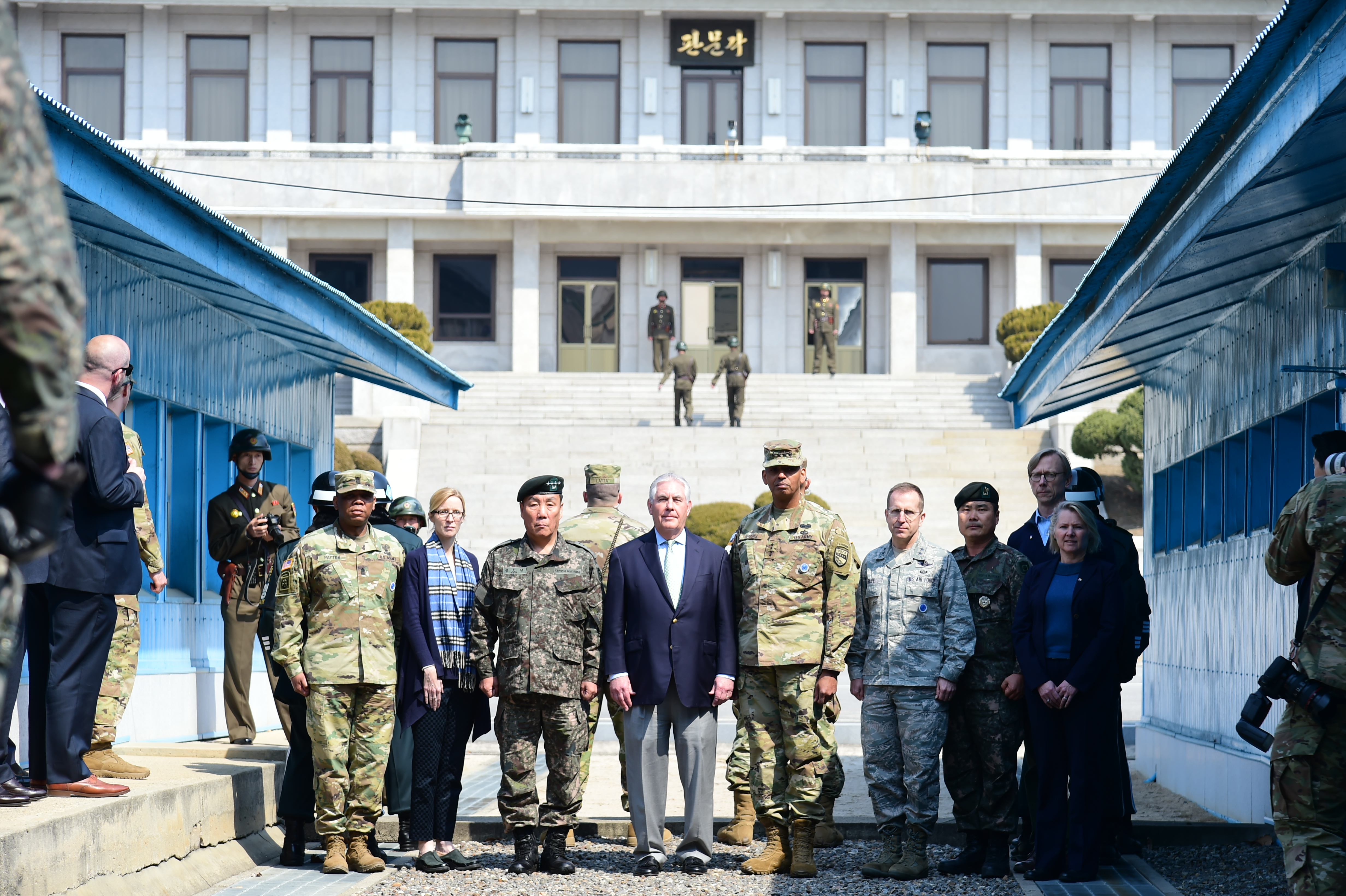 U.S. Secretary of State Rex Tillerson poses for a photo with U.S. and ROK forces during his tour of the Joint Security Area (JSA) of the Korean Demilitarized Zone (DMZ) on March 17, 2017. [State Department photo/ Public Domain]